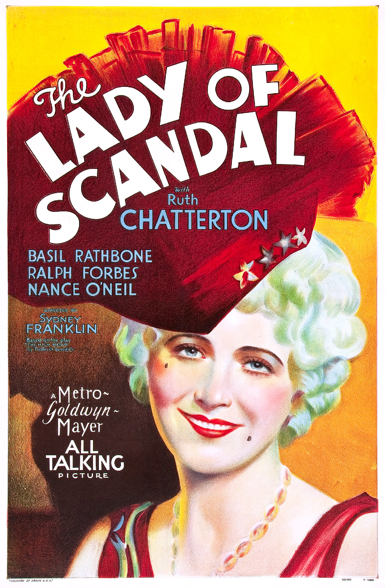 Poster for the 1930 film The Lady of Scandal. There are no copyright marks. At bottom left is Country of origin USA. At bottom right is Sound T-1068.